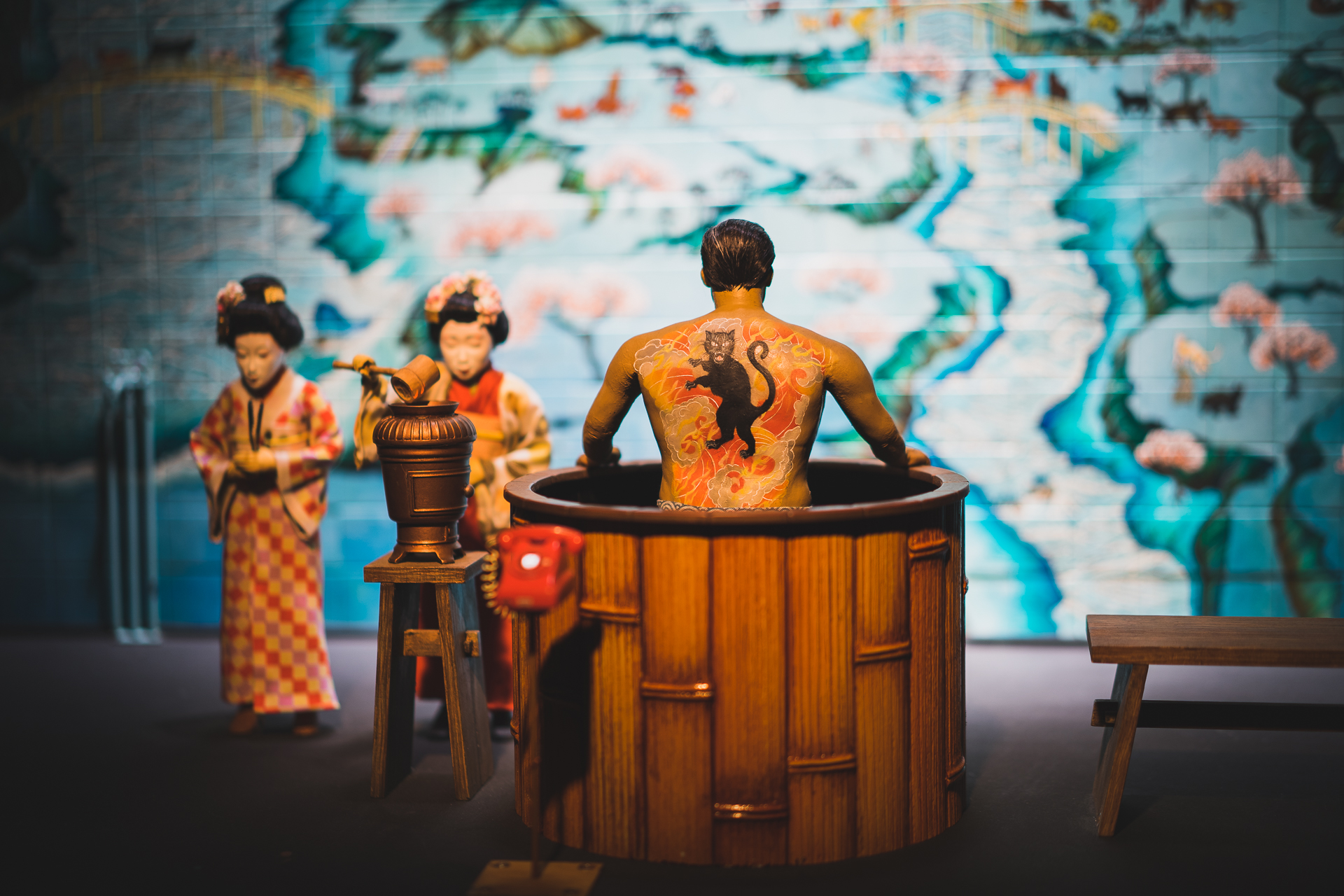 Sets from the film Isle of Dogs